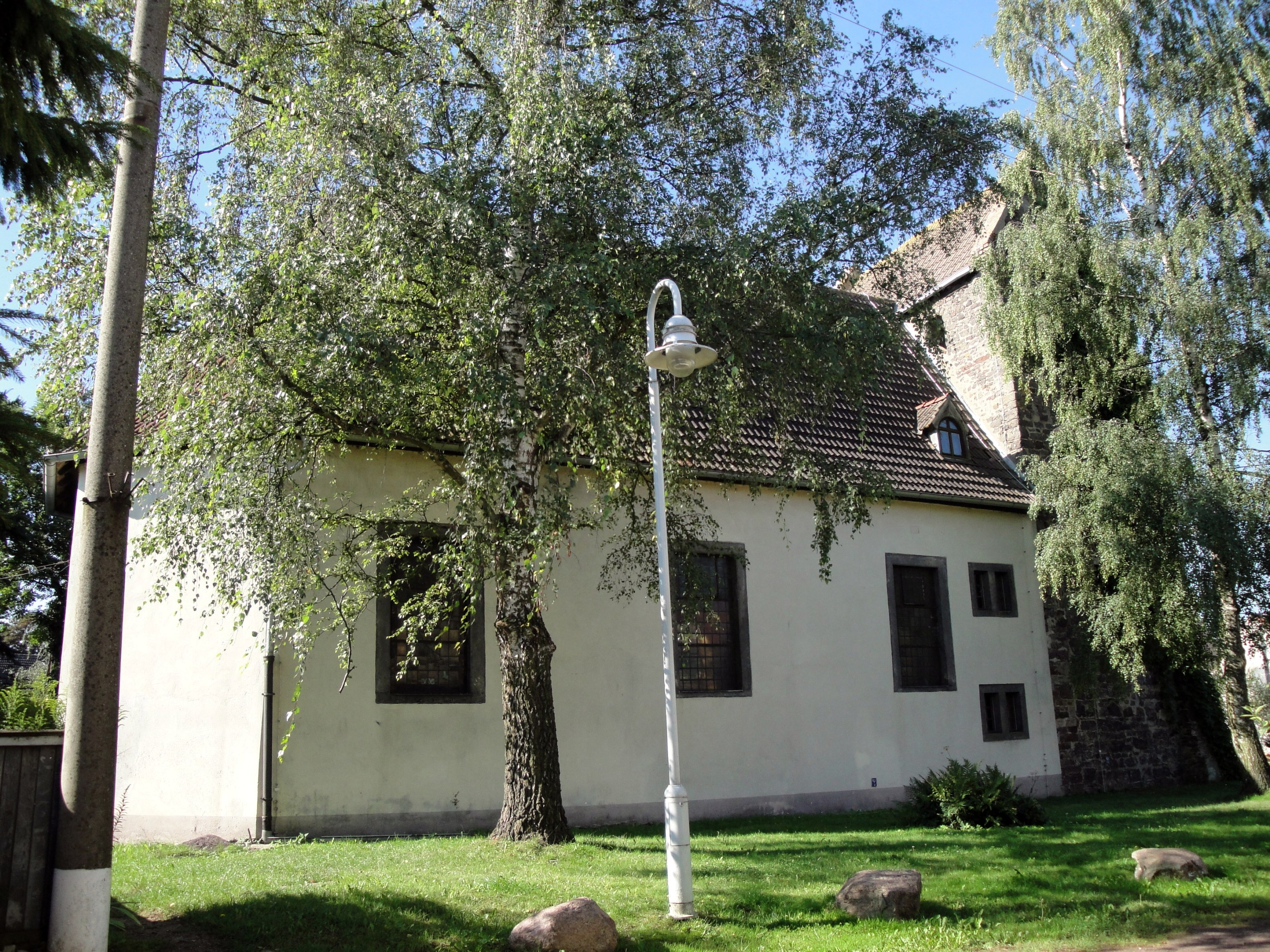 Protestant church in Mammendorf (Hohe Börde), Germany